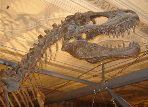 Gorgosaurus (formerly Albertosaurus) libratus, a huge, carnivorous member of the Tyrannosauridae, whose fossils date from the Late-Cretaceous of Canada. It's named after the state of Alberta and its name means Alberta-lizard, if literally translated.